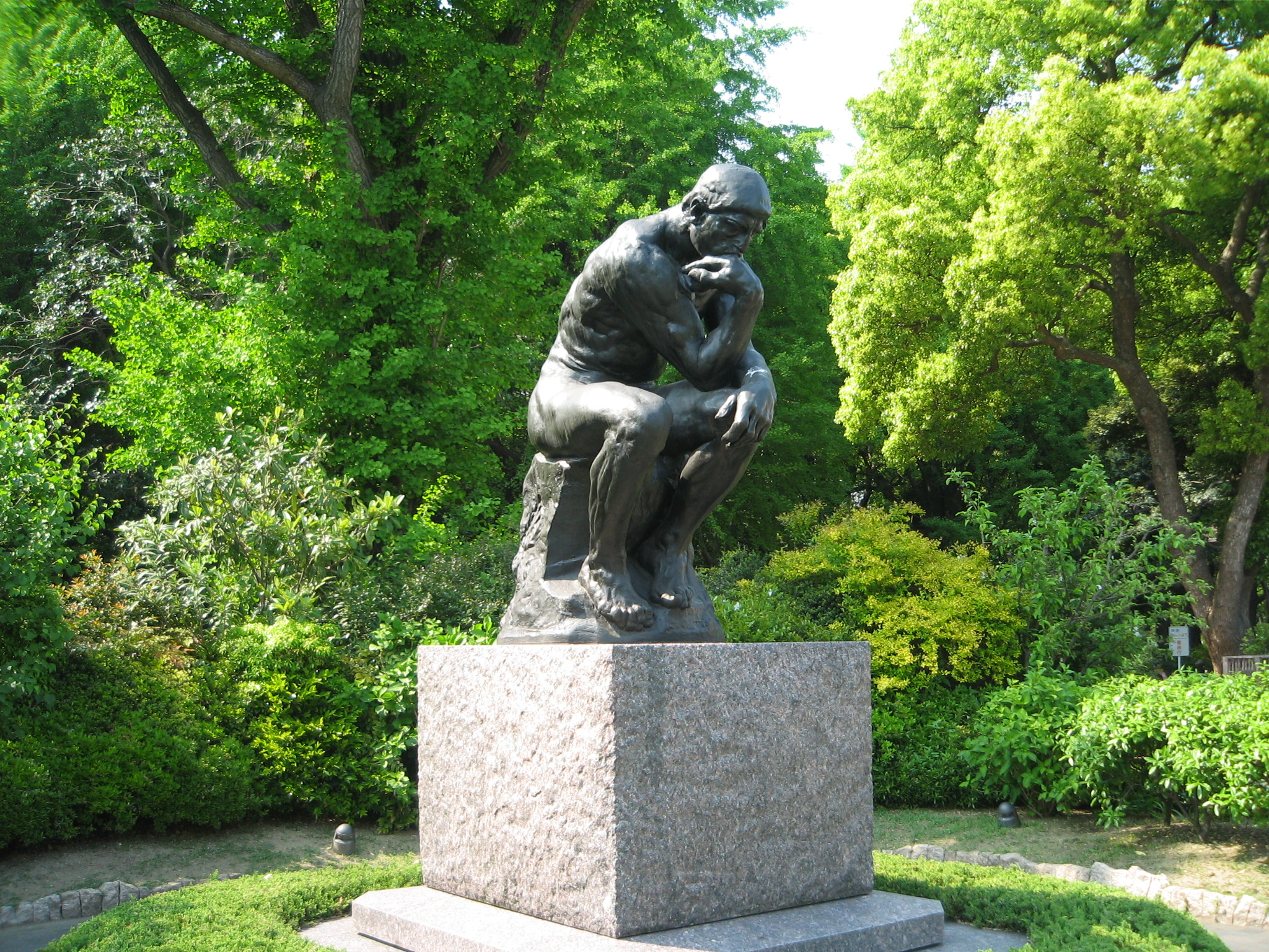 Rodin's The Thinker